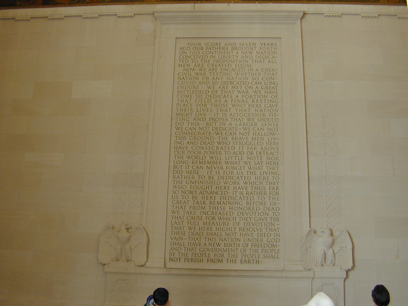 Lincoln's Gettysburg Address from Lincoln Memorial, Washington D.C.